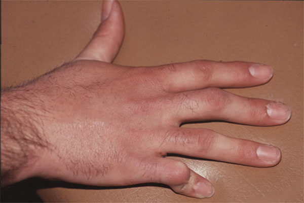 Congenital camptodaktyly of the 5th (little) finger (see e-rheumatology.gr, the free Rheumatology website)